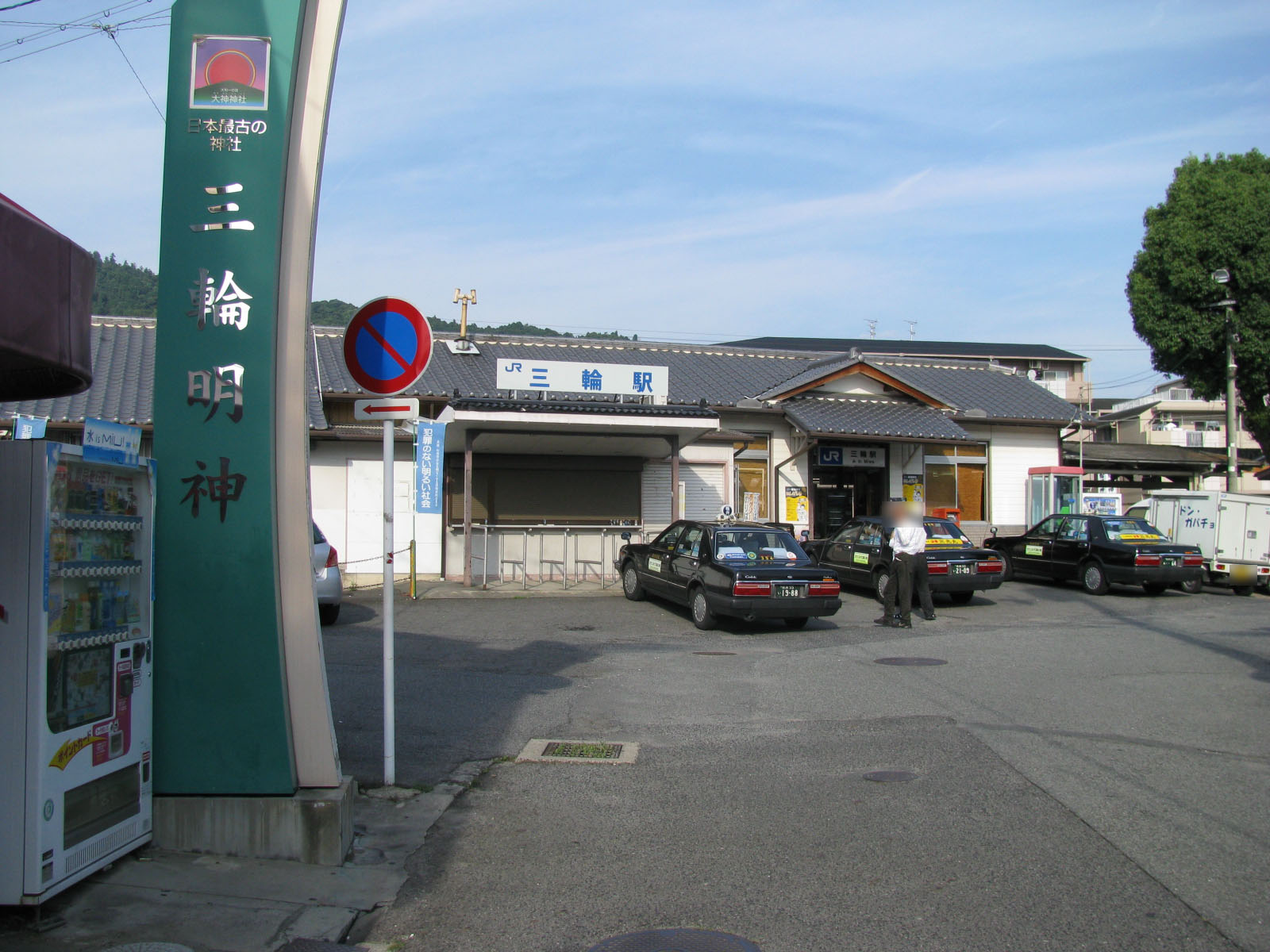 West Japan Railway Company, Sakurai Line, Miwa Station.